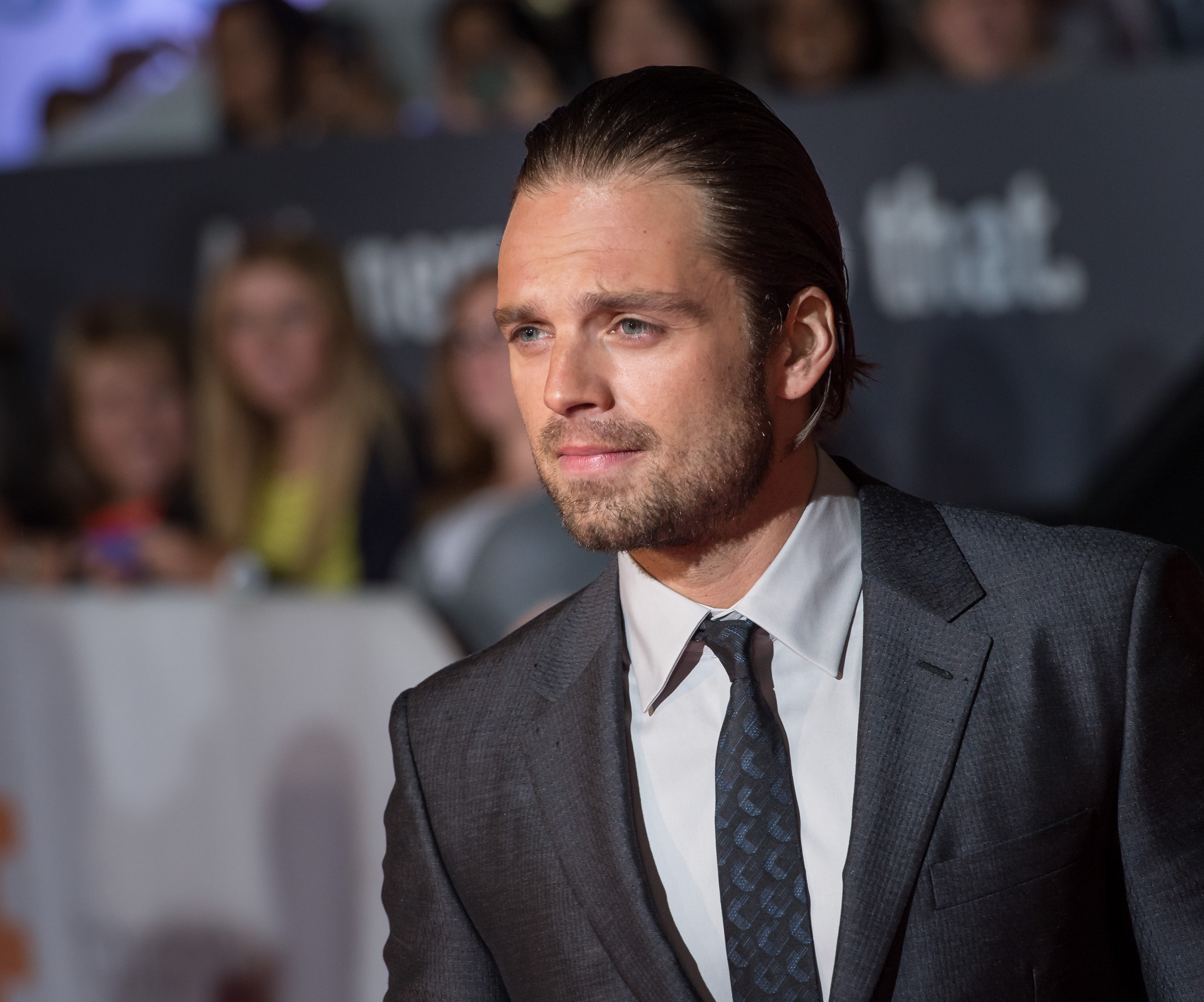 Actor Sebastian Stan attends the world premiere for "The Martian” on day two of the Toronto International Film Festival at the Roy Thomson Hall, Friday, Sept. 11, 2015 in Toronto. NASA scientists and engineers served as technical consultants on the film. The movie portrays a realistic view of the climate and topography of Mars, based on NASA data, and some of the challenges NASA faces as we prepare for human exploration of the Red Planet in the 2030s.